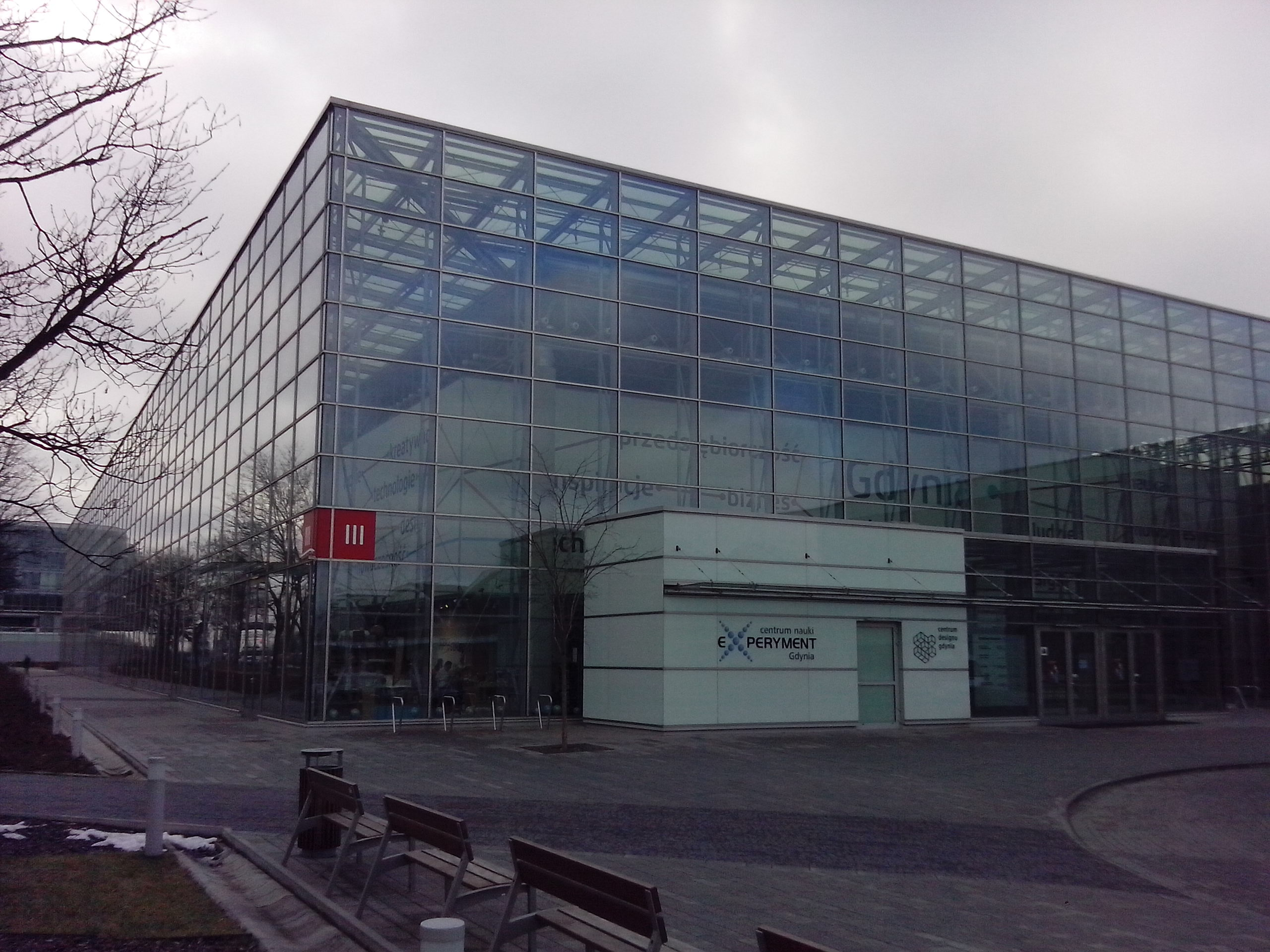 Pomeranian Science park III